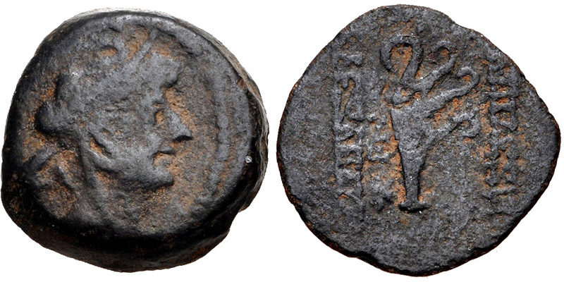 297, Lot: 80. Estimate $100. from the website: Sold for $60. This amount does not include the buyer’s fee. SELEUKID KINGS of SYRIA. Alexander II Zabinas. 128-122 BC. Æ (15mm, 3.53 g, 1h). Antioch mint. Struck circa 125-122 BC. Head right, wearing elephant skin headdress / Aphlaston; to inner left, monogram above six-pointed star. SC 2234.1 var. (star symbol not noted); HGC 9, 1173. Good Fine, brown patina. Scarce type and perhaps unrecorded with star symbol.